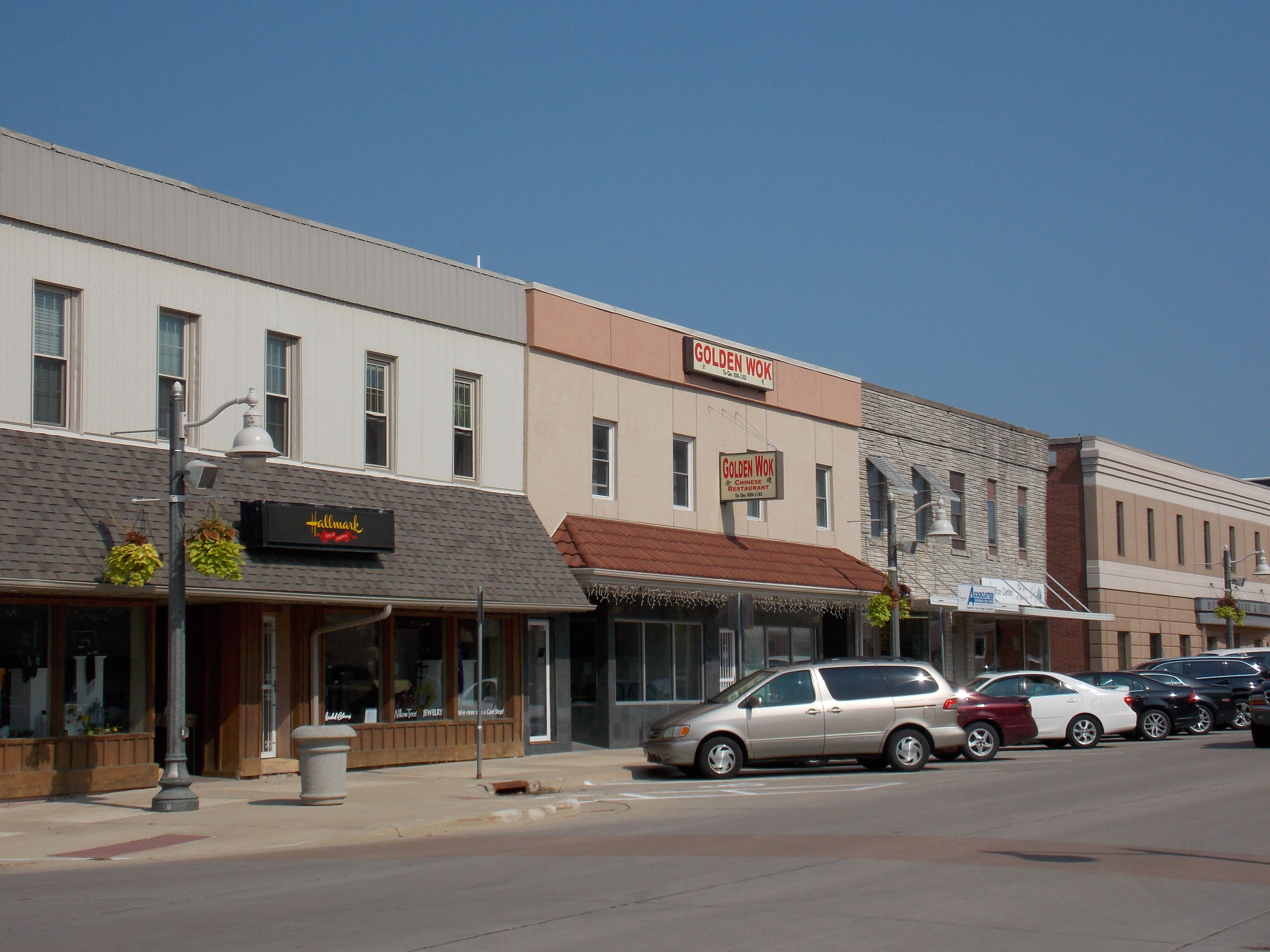 Buildings in downtown DeWitt, Iowa.